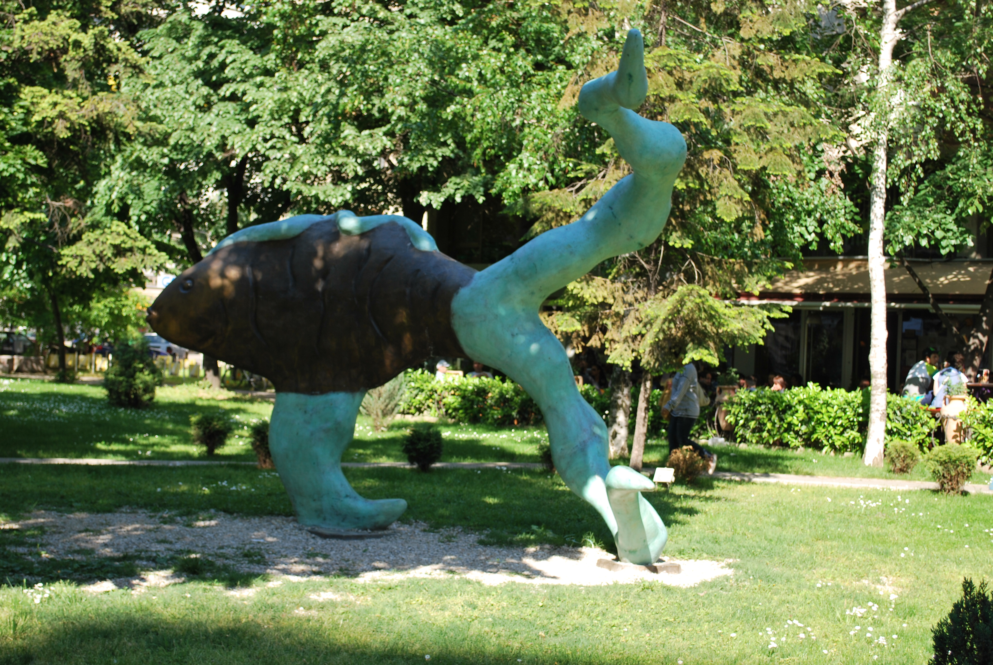 Monument in Skopje, Macedonia